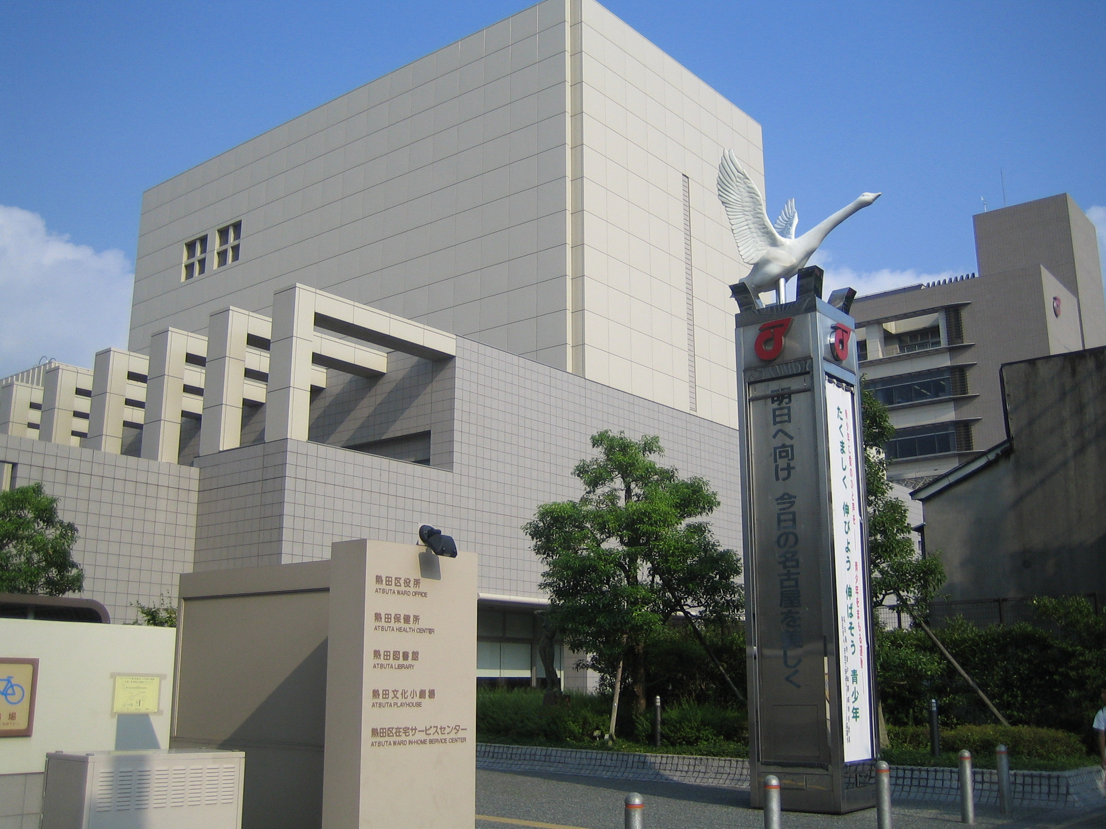 Atsuta Ward Office (熱田区役所), in Atsuta, Nagoya